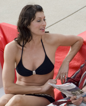 Chorvat on the set of Narcissus Dreams, Malibu, California (with Thomas Beaumont)